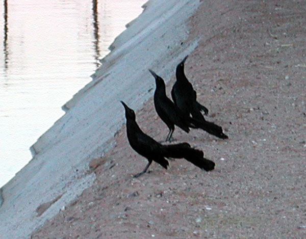 Quiscalus mexicanus, Great-tailed Grackle. A group of males engaging in lekking behavior.